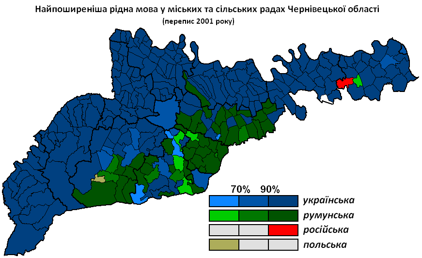 Native languages of Chernivtsi oblast according to 2001 census